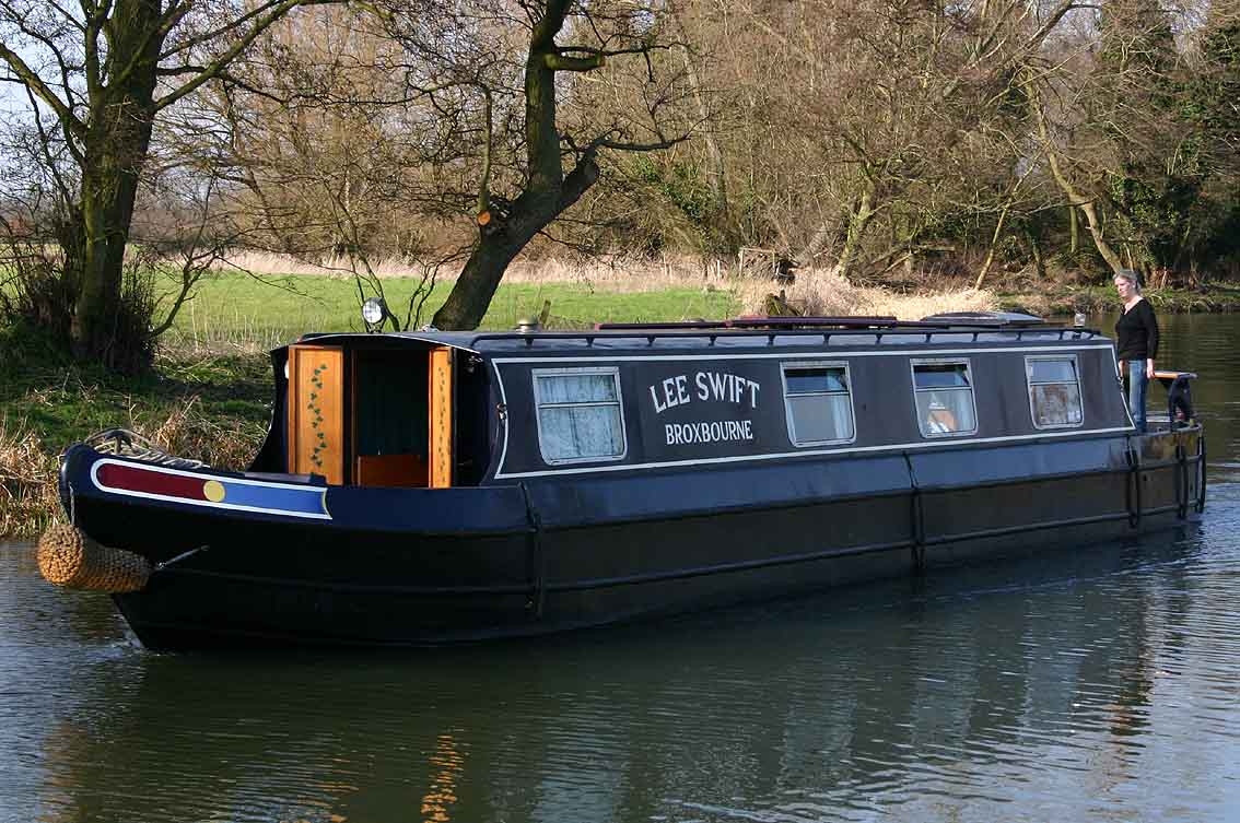 The Lee Swift Narrowboat On Wey Navigation Surrey UK